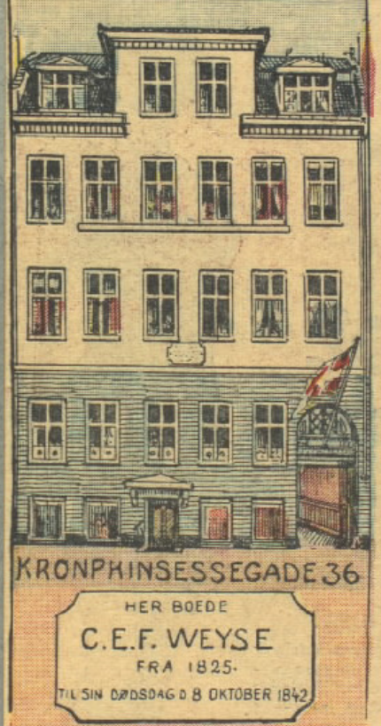 Kronprinsessegade 36 where C. E. F. Weyse Weyse lived from 1825.